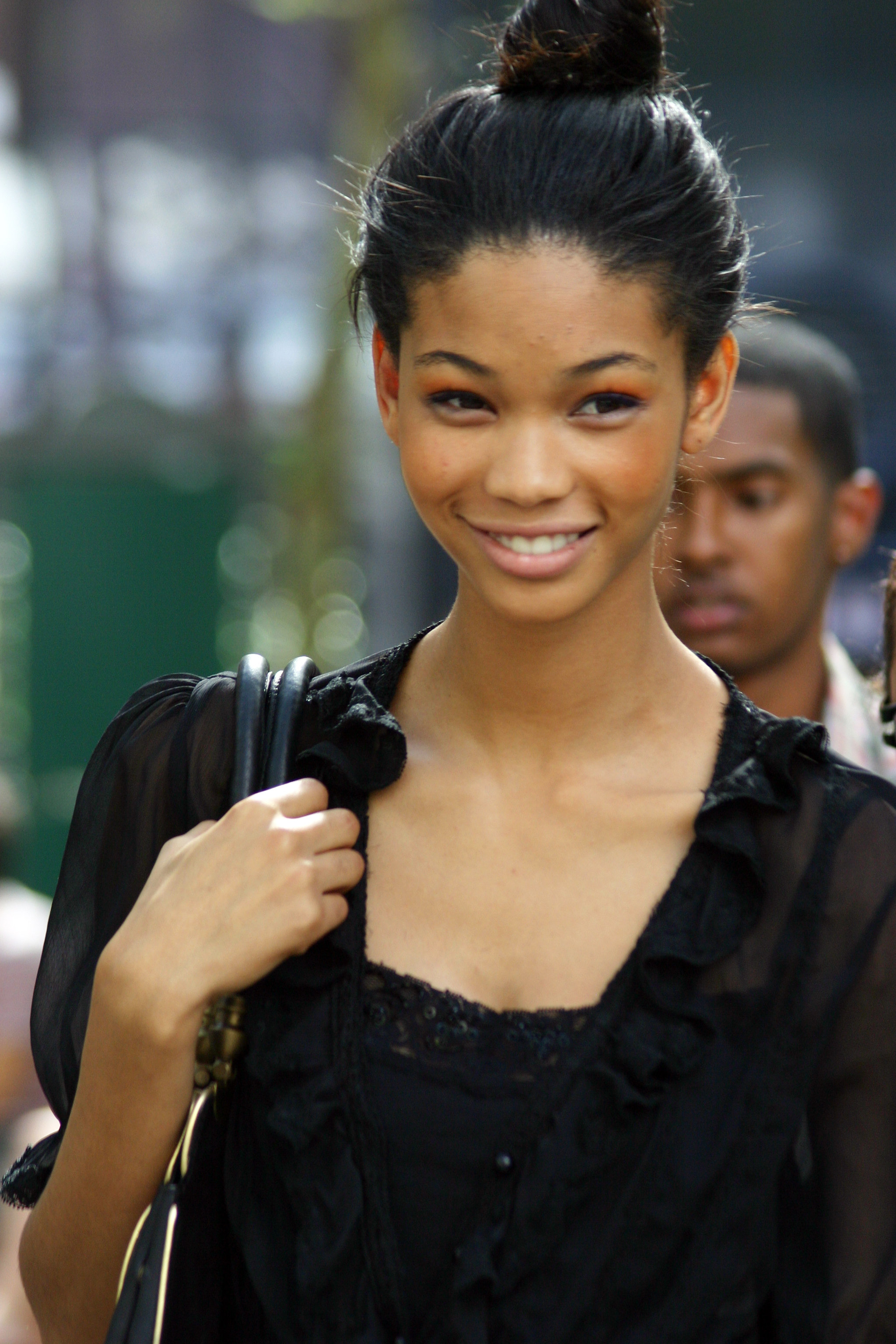 Model Chanel Iman enters the tents during Mercedes-Benz Fashion Week 2007 held in Bryant Park, New York.